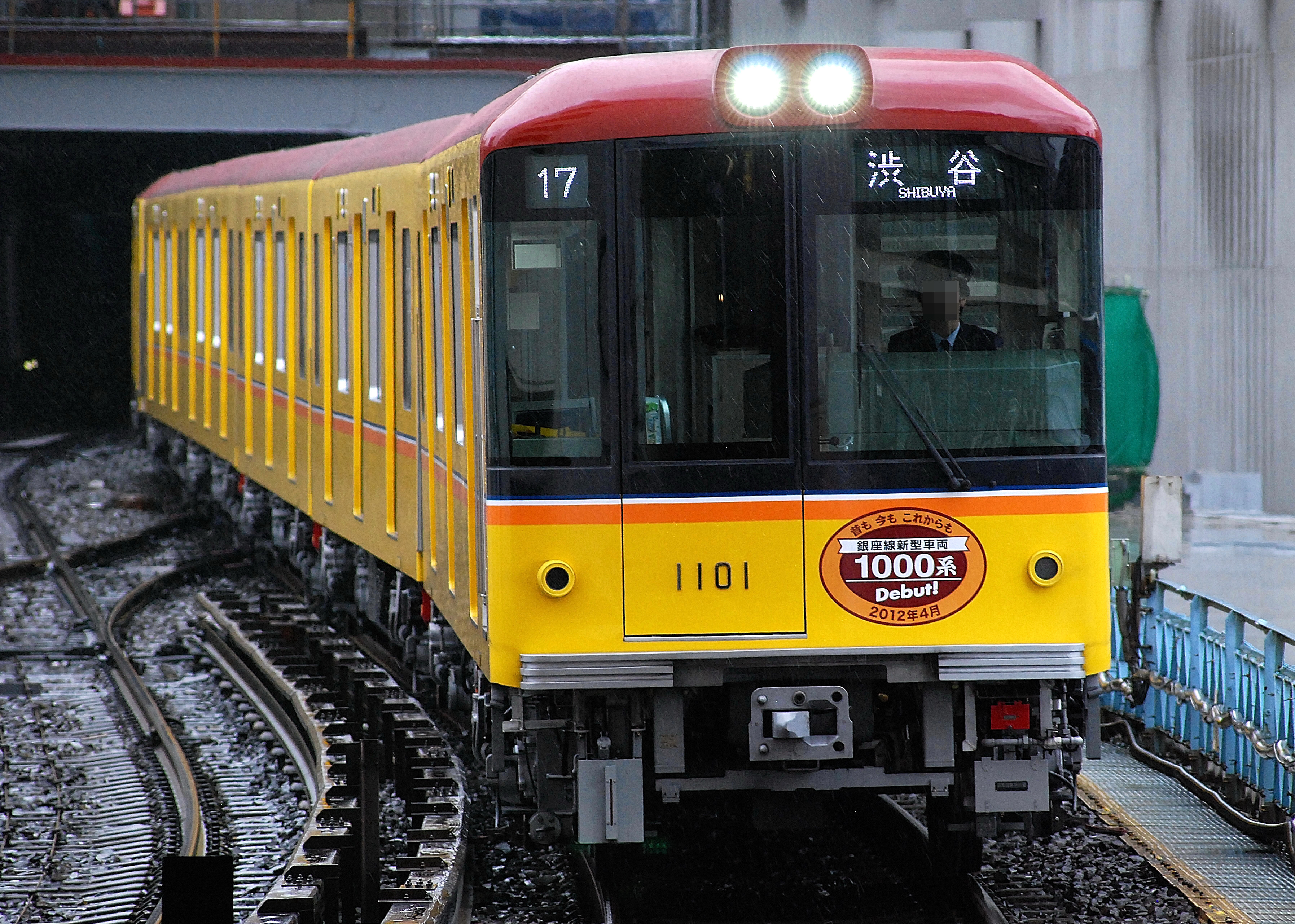 Tokyo Metro 1000 series EMU set 1101 approaching Shibuya Station on the Ginza Line in Tokyo